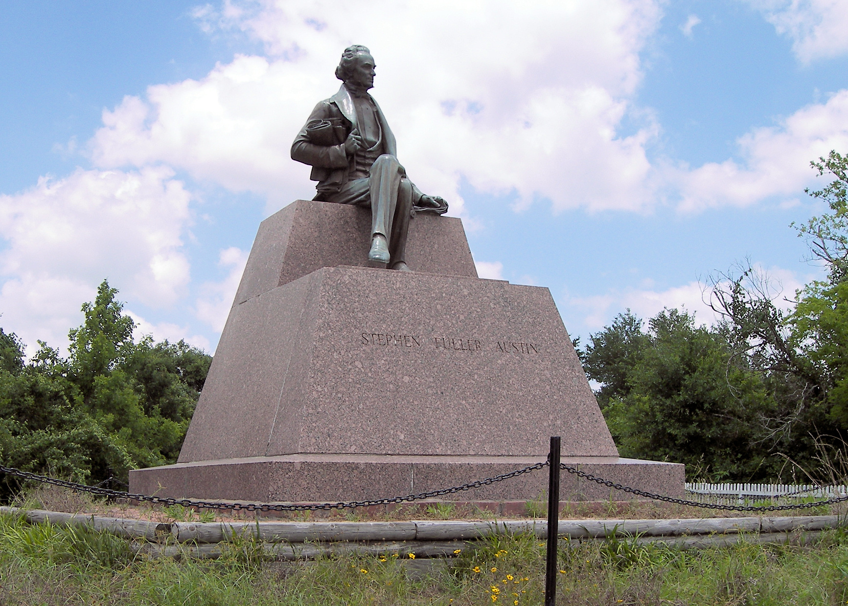 The statue of Stephen F. Austin at San Felipe de Austin State Historic Site. The bronze statue, sculpted by John Angel, was unveiled in 1938 as part of the Texas Centennial celebration.